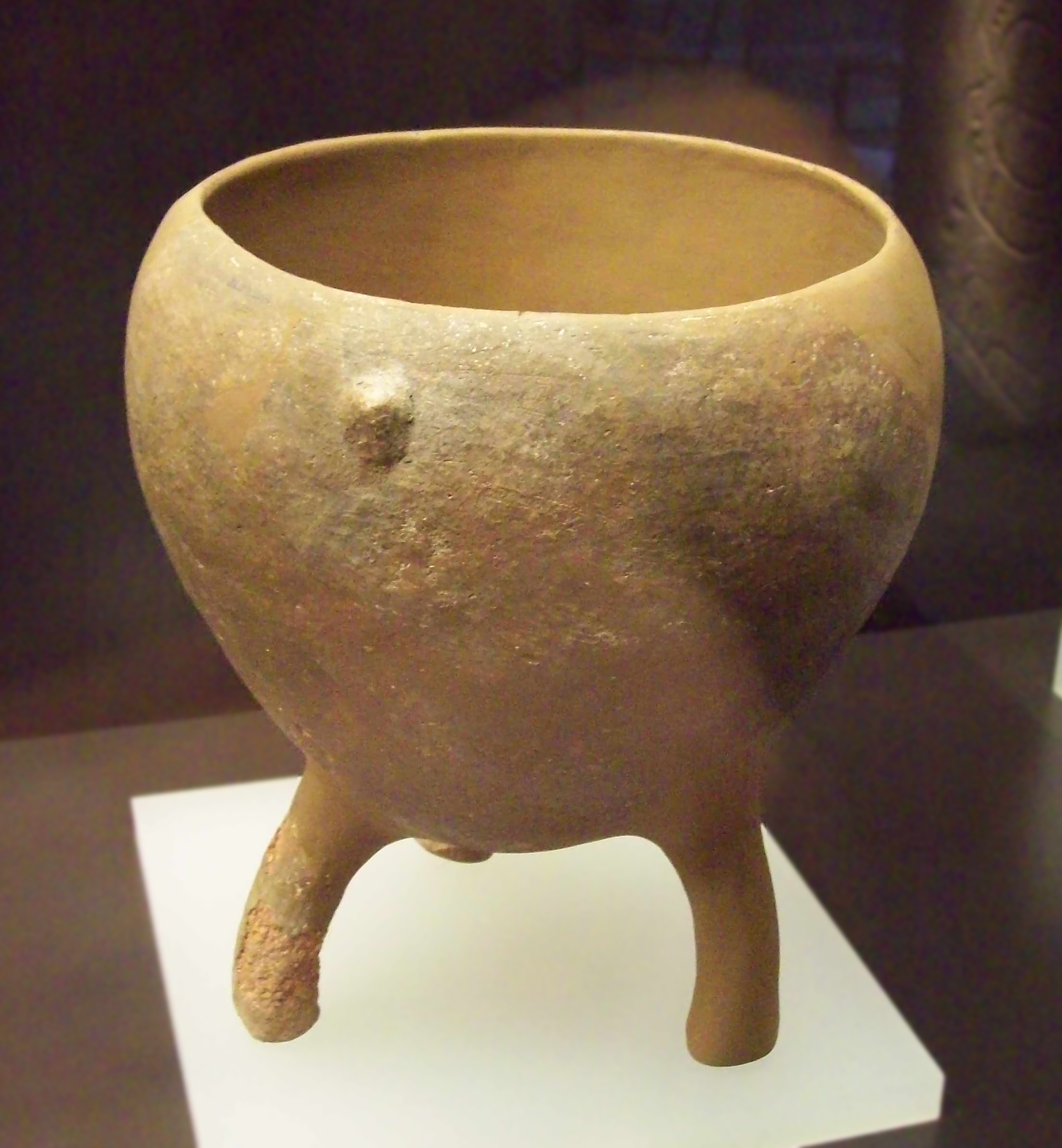 A tripod vessel from the Argaric culture.